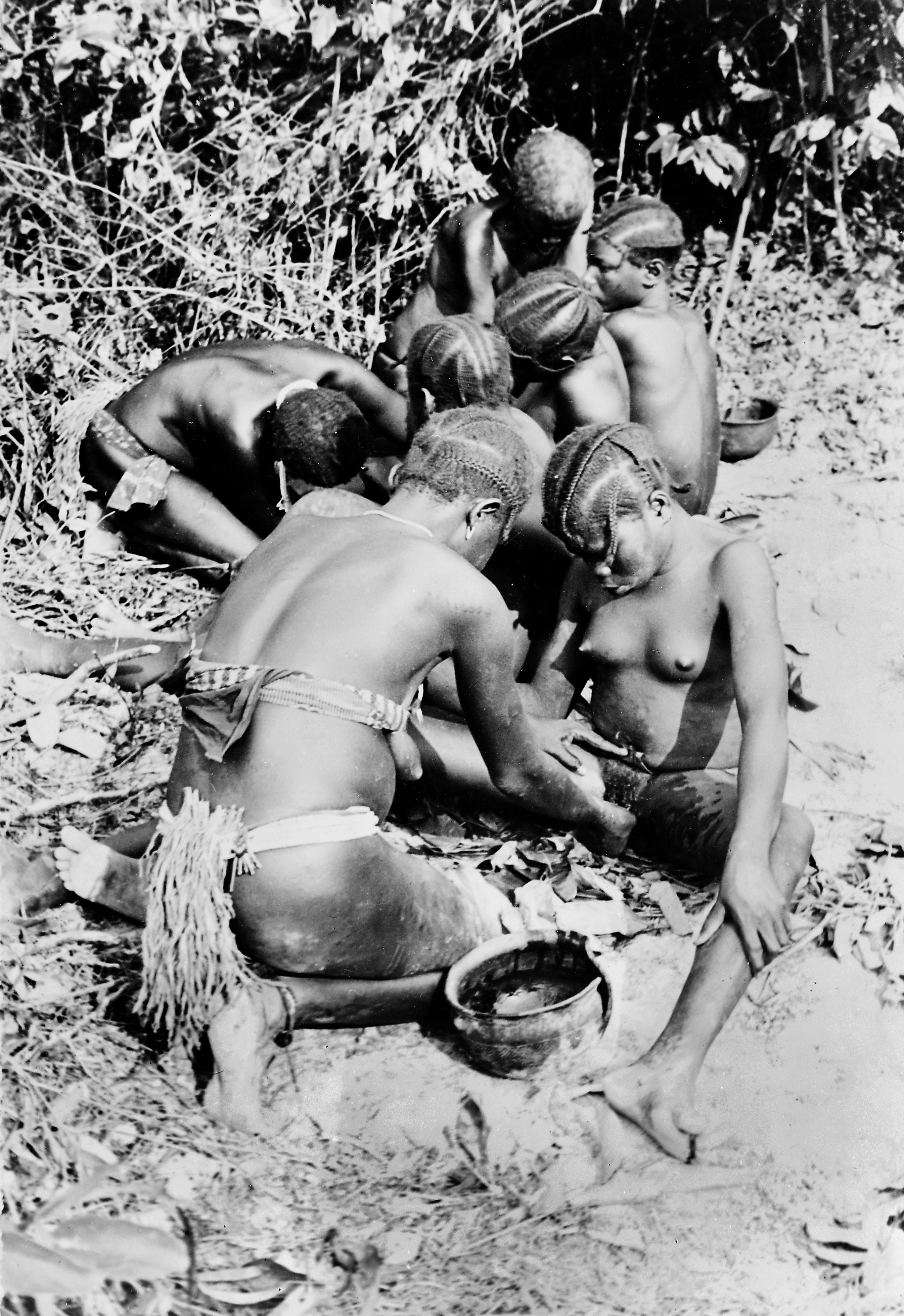 Dressing the Gangas Wellcome Images Keywords: female genital mutilation; artificial deformation; indigenous non-european medicine; female circumcision